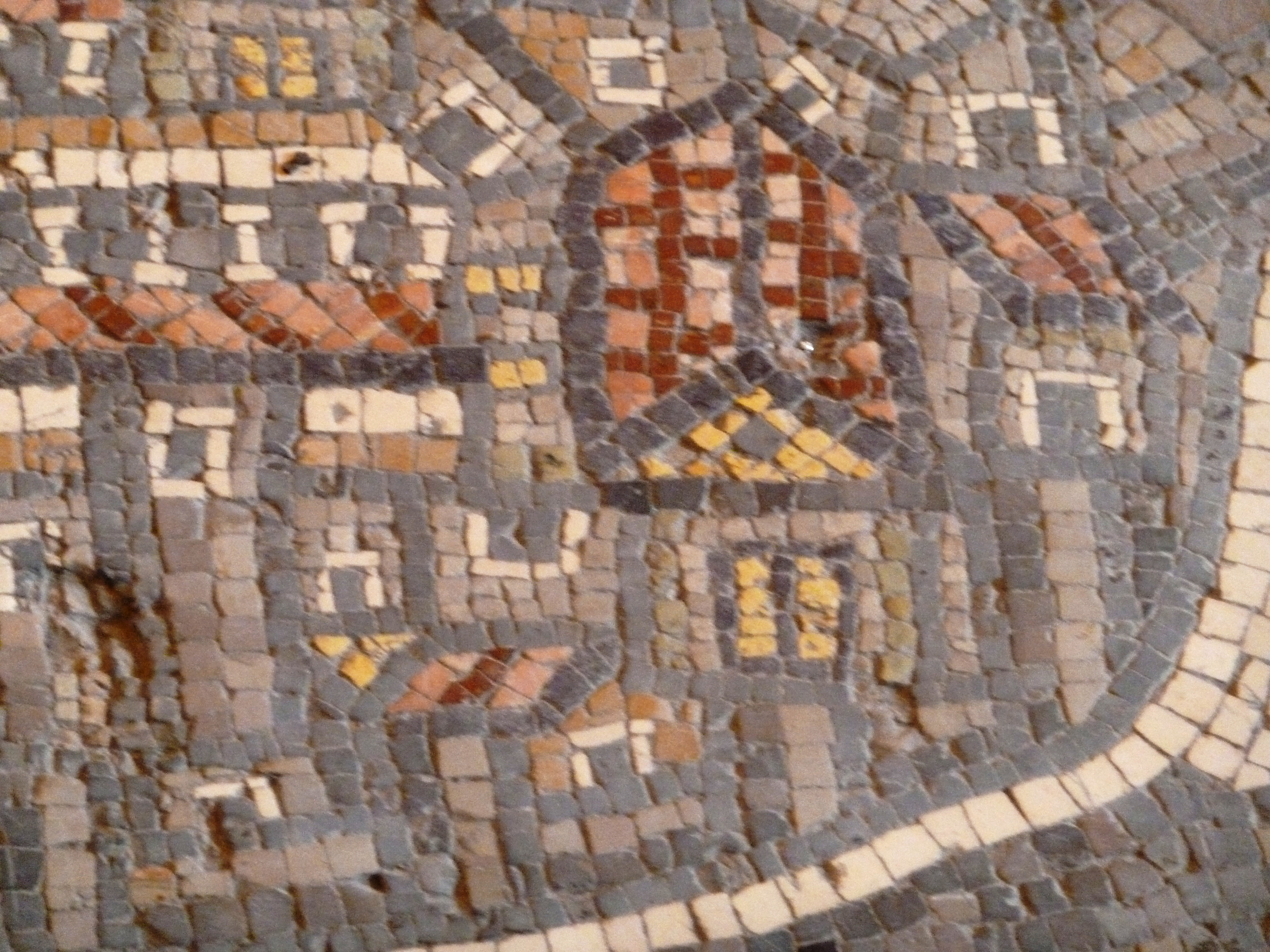 Byzantine floor mosaic map at St. George Church, Madaba, Jordan